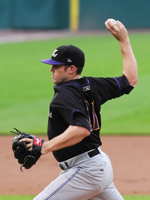 Sam LeCure pitching in Syracuse, NY